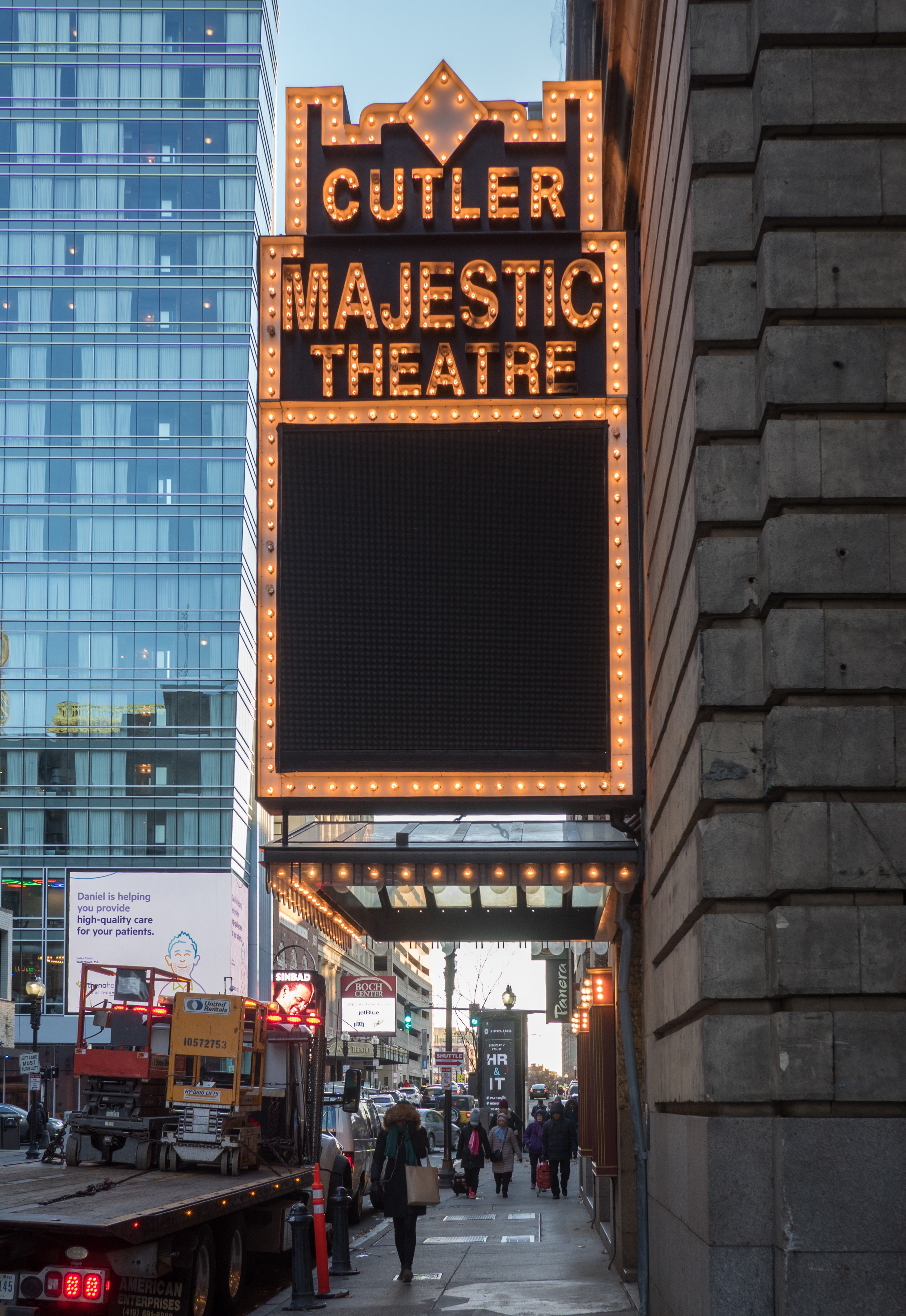 Cutler Majestic Theatre